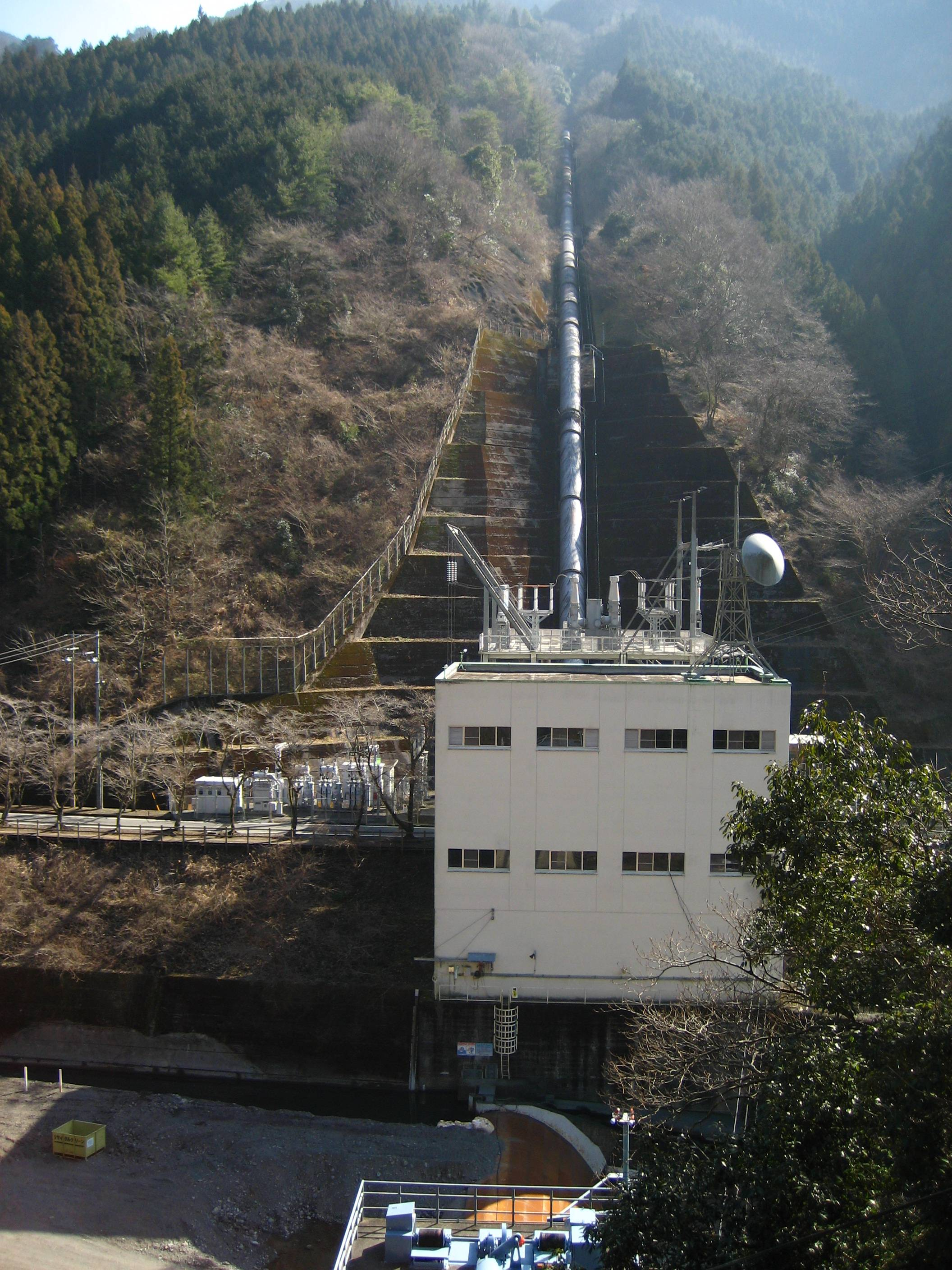 Misakubo Dam {水窪ダム (静岡県)} is a dam in Hamamatsu city, Shizuoka prefecture, Japan.